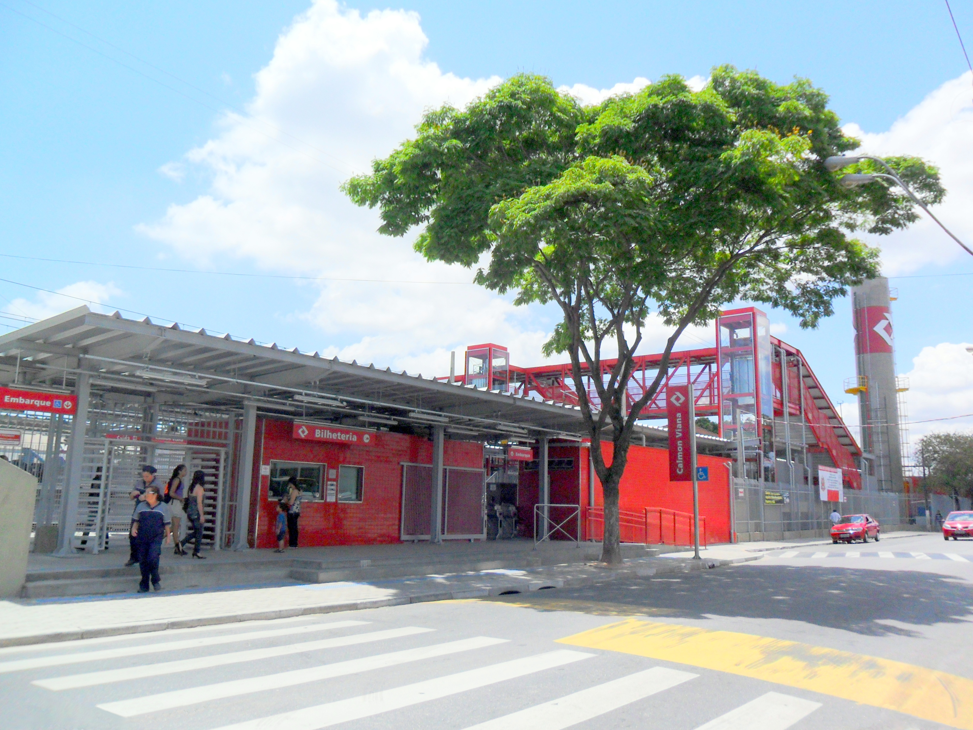 Calmon Viana Station (CPTM)